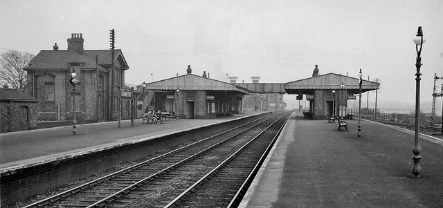 Barnetby Station, view towards Immingham and Grimsby. This was a very important junction, where lines from Lincoln, Retford and Doncaster converged, to continue towards Immingham and Grimsby. All remain open, and Barnetby must have been a fascinating spot in Steam Days. See also TA0509 : Barnetby Station, view towards Lincoln/Retford/Doncaster.